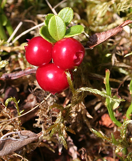 Cowberry (Vaccinium vitis-idaea)